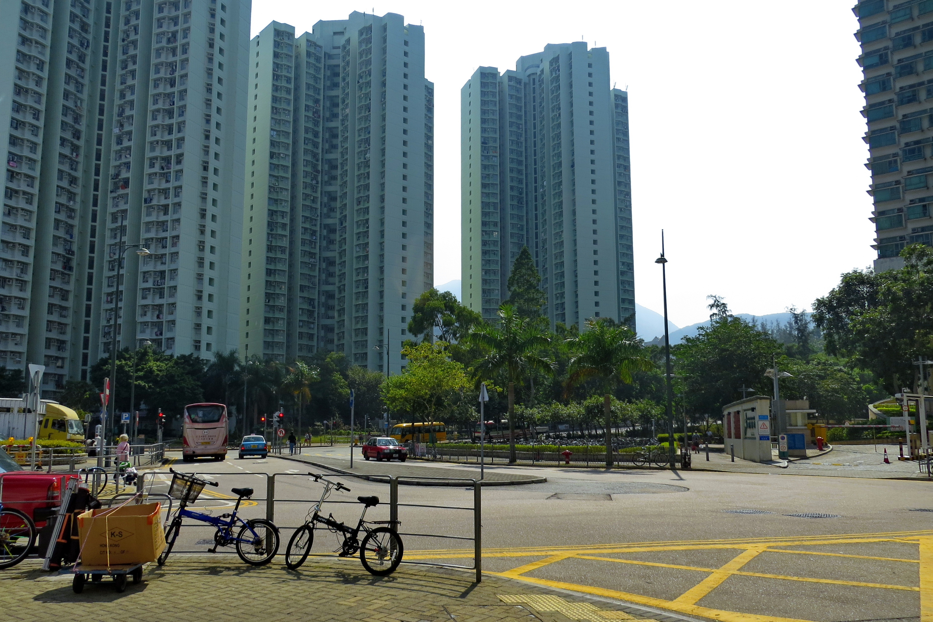 Hing Tung Street, Tung Chung, Hong Kong.